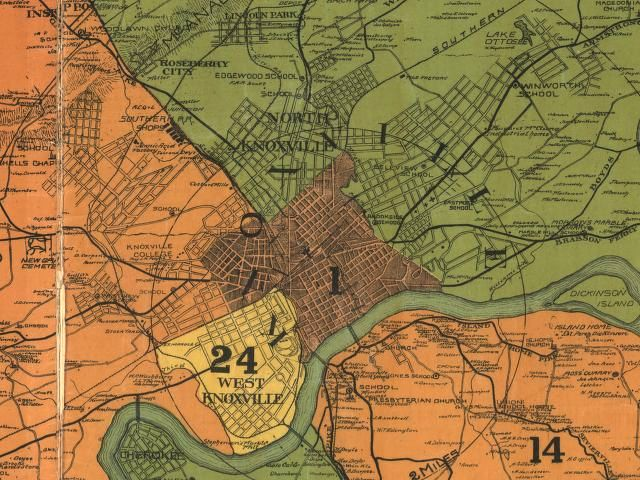 Knoxville, Tennessee, USA (the purple area at the center), as it appeared on an 1895 map of Knox County. West Knoxville and North Knoxville were separate cities, though they would be annexed in 1897. Lake Ottosee is now part of Chilhowee Park.